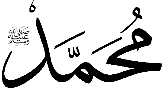 Muhammed's name (محمد) with Salat phrase (صلى الله عليه وسلم) written in Thuluth, an Arabic Calligraphy.